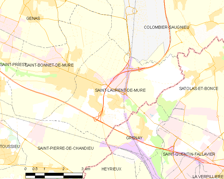 Map of French municipality